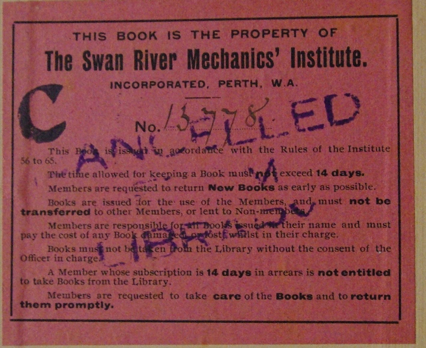 Swan River Mechanics Institute Library Paste down - pre First World War book stamp